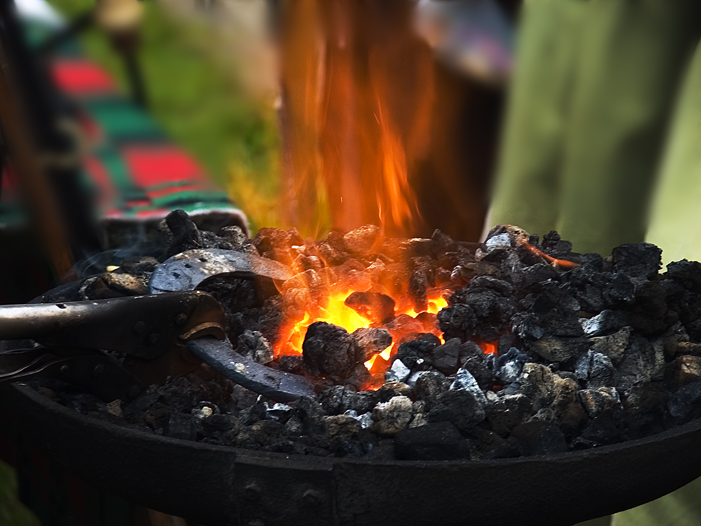 "Hot Shoe" - Horseshoe, Blacksmithing, somewhere in Ireland